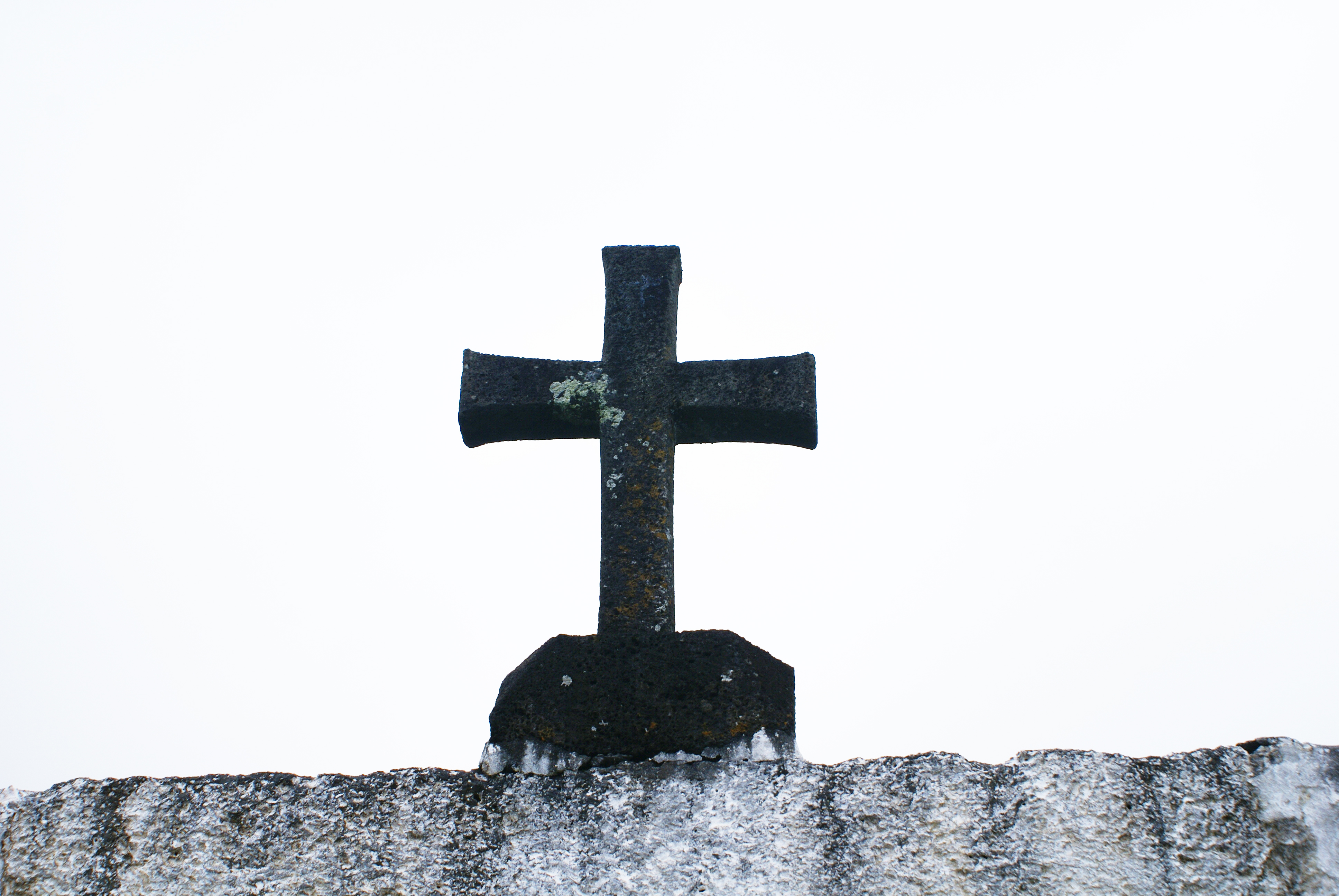 The crucifix on top of the Chapel of Nossa Senhora do Socorro, Ribeiras, Lajes do Pico, Pico (Azores), Portugal